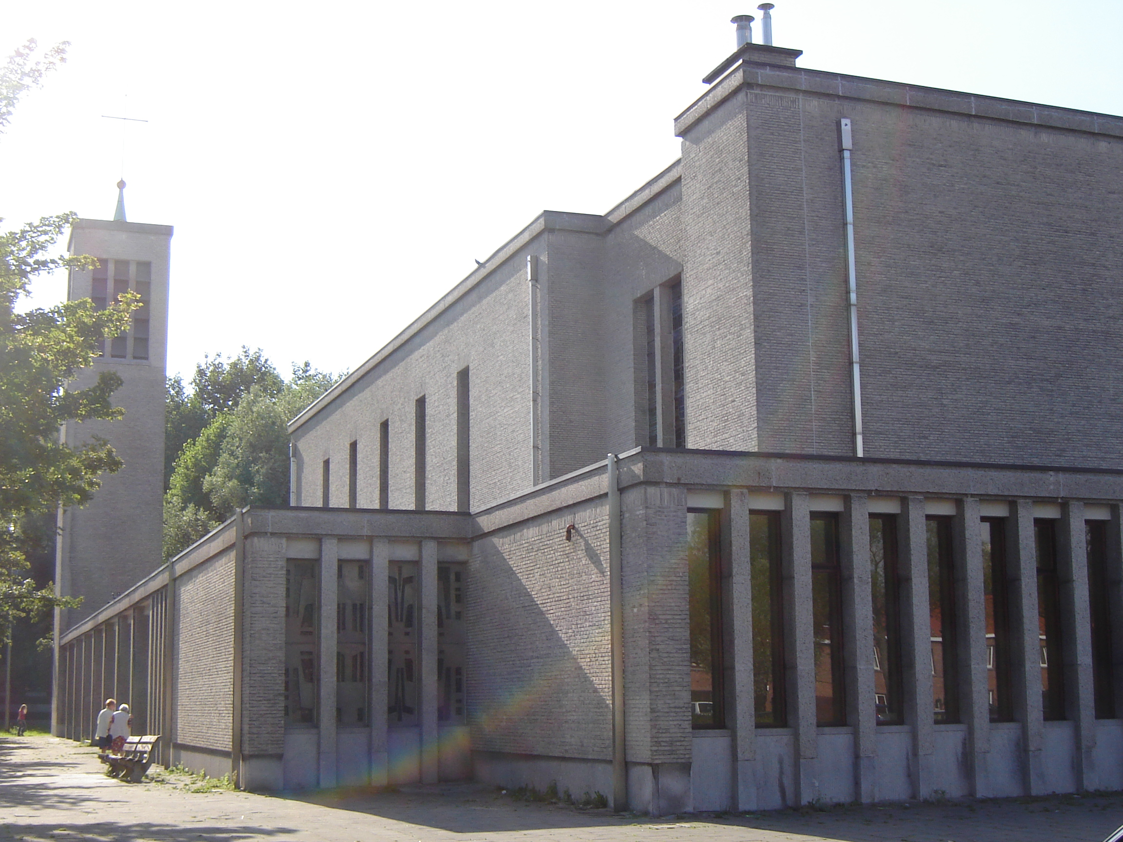 Church of Christ the King in Gent. Gent, East Flanders, Belgium.